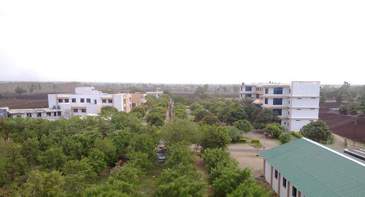 SND College of Engineering & Research Centre campus view